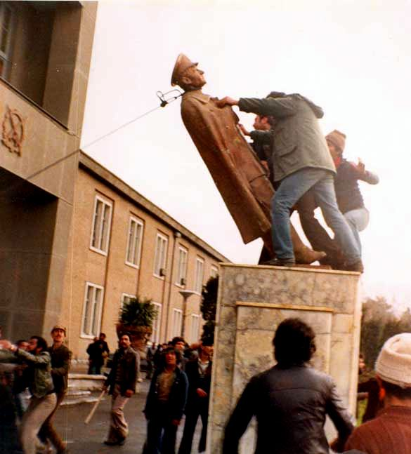 Removal of a statue of the Shah in Tehran University during the revolution in 1978